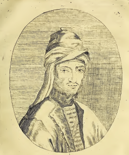 Antonio_I_Acciauoli Duch of Athens